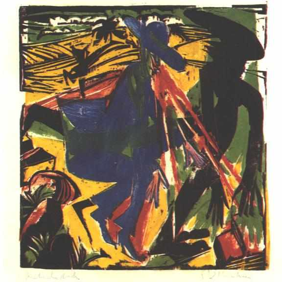 Schlemihls entcounter with the shadow